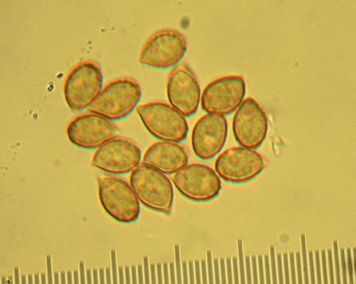 Cortinarius traganus (Fr.) Fr.